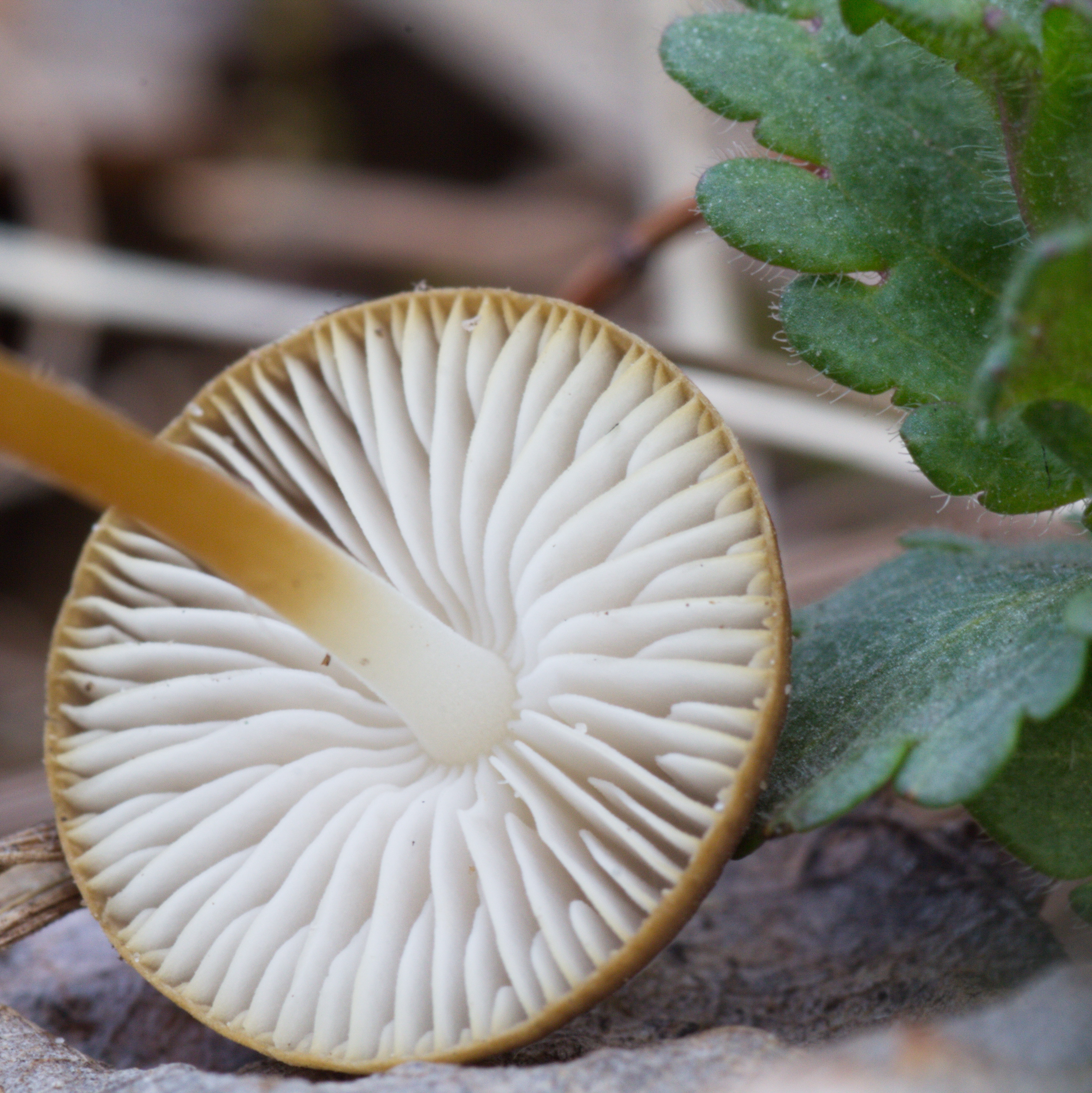 The gills of the agaric fungus Strobilurus tenacellus (Pers.) Singer. Specimen found in Akademgorodok, Novosibirsk, Russia.